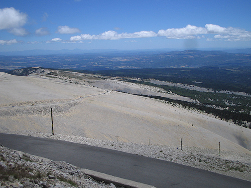 View from the summit of the Mont Ventoux